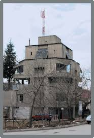 The building of the archives of Ohrid, a department of the State Archive of the Republic of Macedonia. This media file is produced by Wikipedian in Residence in Category:Wikipedian in Residence at DARM in 2016.